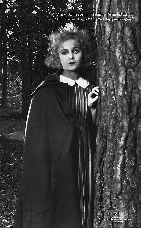 Mary Johnson in the movie Gunnar Hedes saga (1923).